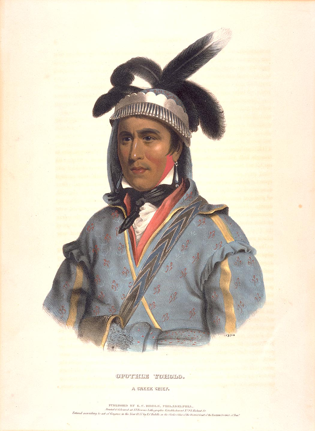 Lithograph of Opothleyahola, published in The History of the Indian tribes of North America, by Thomas L. McKenney and James Hall (author) (Philadelphia, 1836-1844), based (probably) on a painting by Charles Bird King.